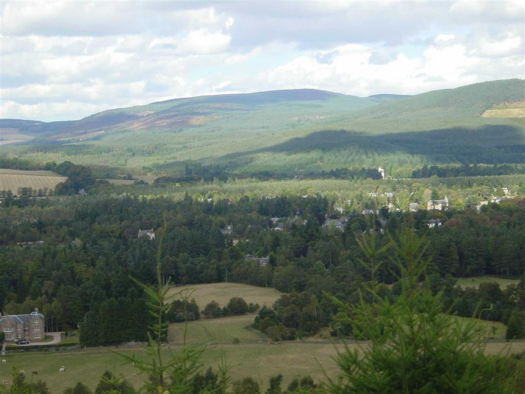 Aboyne